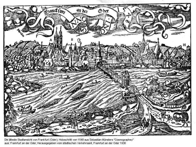 Frankfurt (Oder) in 1548